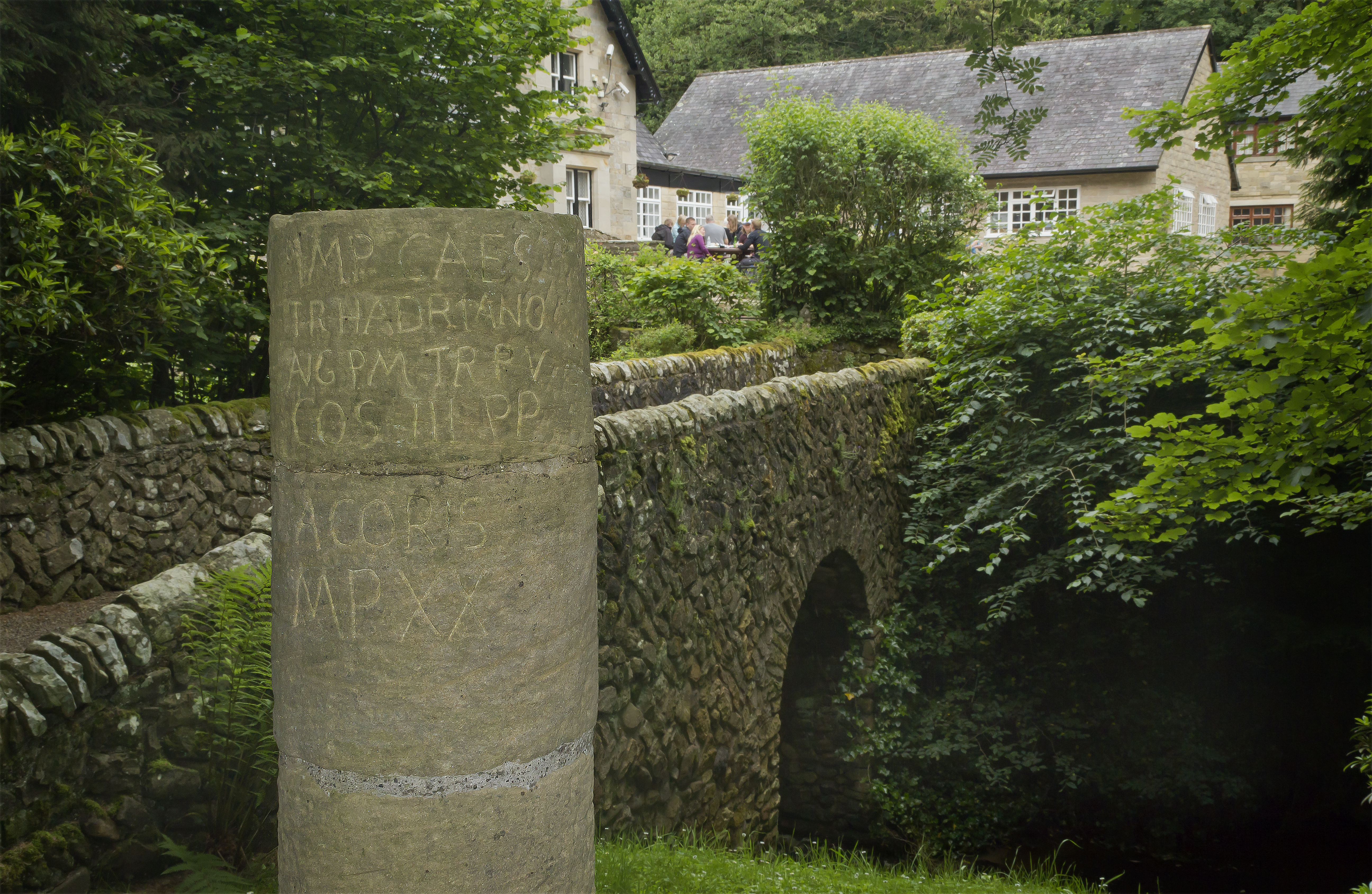 Stanegate was the Roman road linking the Roman forts at Corbridge (Corstopitum) and Carlisle (Luguvalium). It was built at about the same time as the first fort at Vindolanda . It would also become the northern frontier of Roman territory in Britain until Hadrian's Wall was built just north of it. This is a replica with a false inscription of the only one of its milestones to survive intact (although its inscription is almost gone). Chesterholm is in the background. It reads: IMP CAES TR HADRIANO AVG PM TR PV COS III PP A CORIS MPXX Which when expanded becomes: IMPERATORI CAESARI TRAIANO HADRIANO AVGVSTO PONTIFICI MAXIMO TRIBVNICIAE POTESTATIS V CONSVLI III PATRI PATRIAE A CORIS MILLE PASSVVM XX Coris would be the fort at Coria or Corstopitum (now Corbridge). Emperor Caesar Trajan Augustus 5 (years) since assuming the powers* of a of the Plebs 3 times, To Coria 20 Thousand Paces A Roman pace (two steps) was 5 feet, so a thousand paces was 5000 feet, or 1 Roman mile. The Emperors, being patricians, could not actually be Tribunes of the Plebs, but since Augustus, they had held all that office's powers, and personal immunity from violence (their persons were sacrosanct).